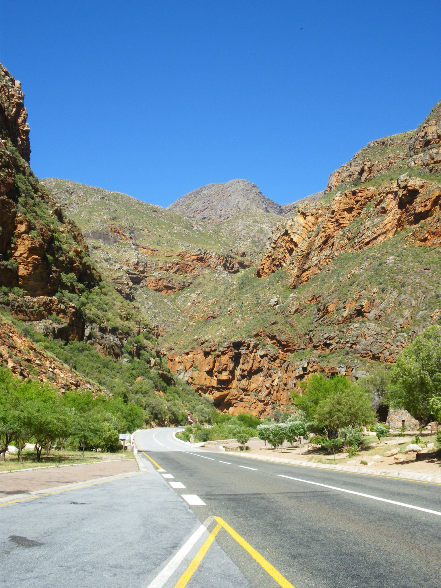 Meiringspoort, Swartberg Mountains, Western Cape Province, South Africa.